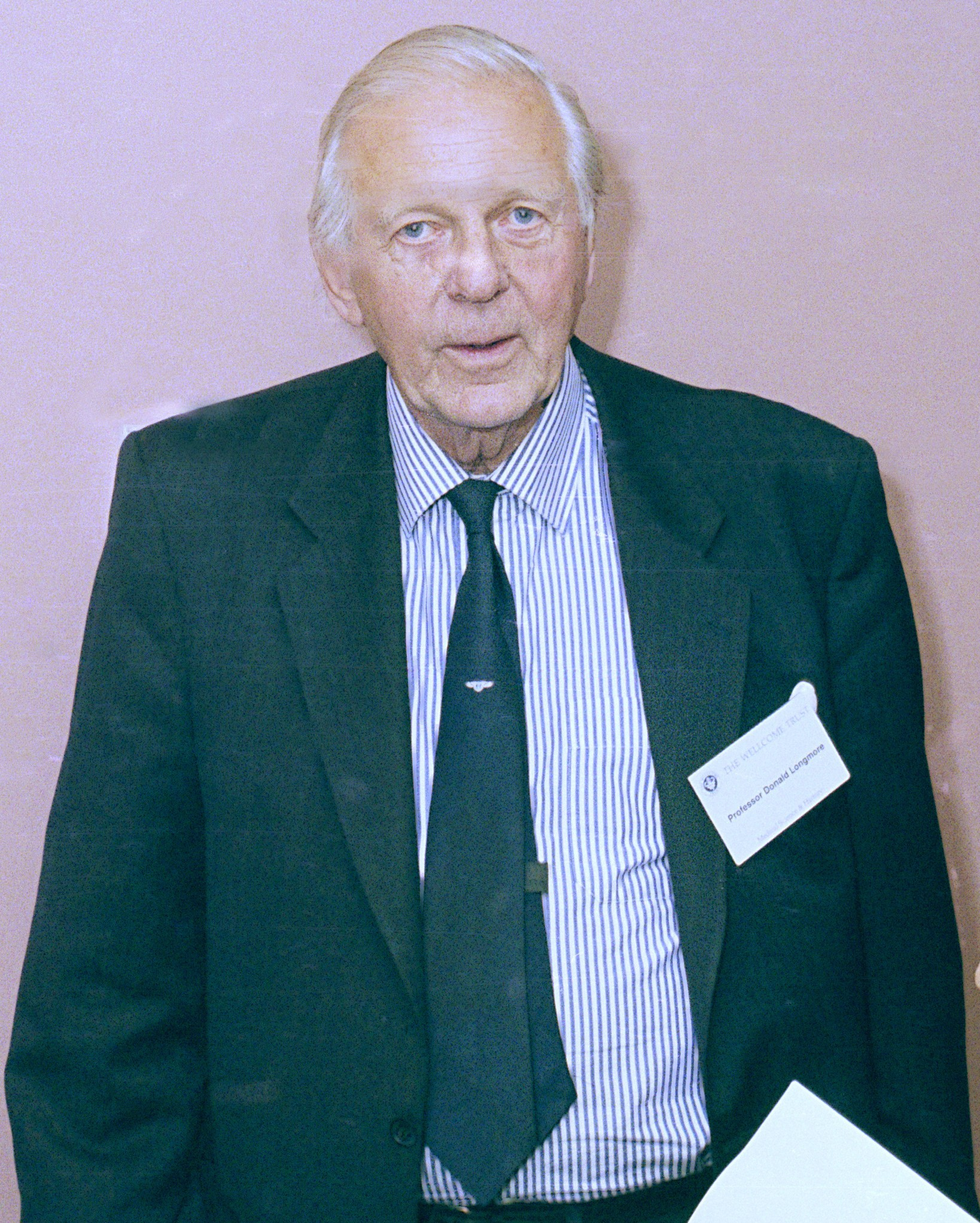 Taken at the Witness Seminar “The First Heart Transplant in the UK in the UK” held by the History of Twentieth Century Medicine Group.